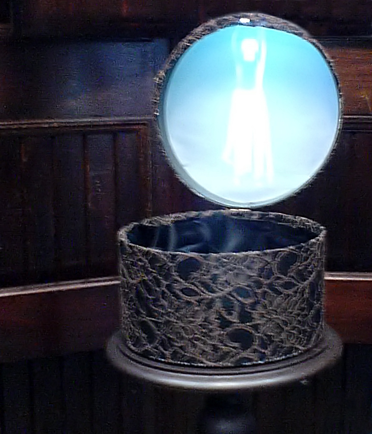 The south lift of the Greenwich foot tunnel...a hat box with a women doing some sort of "yoga dance" projected onto the lid from the back...odd!